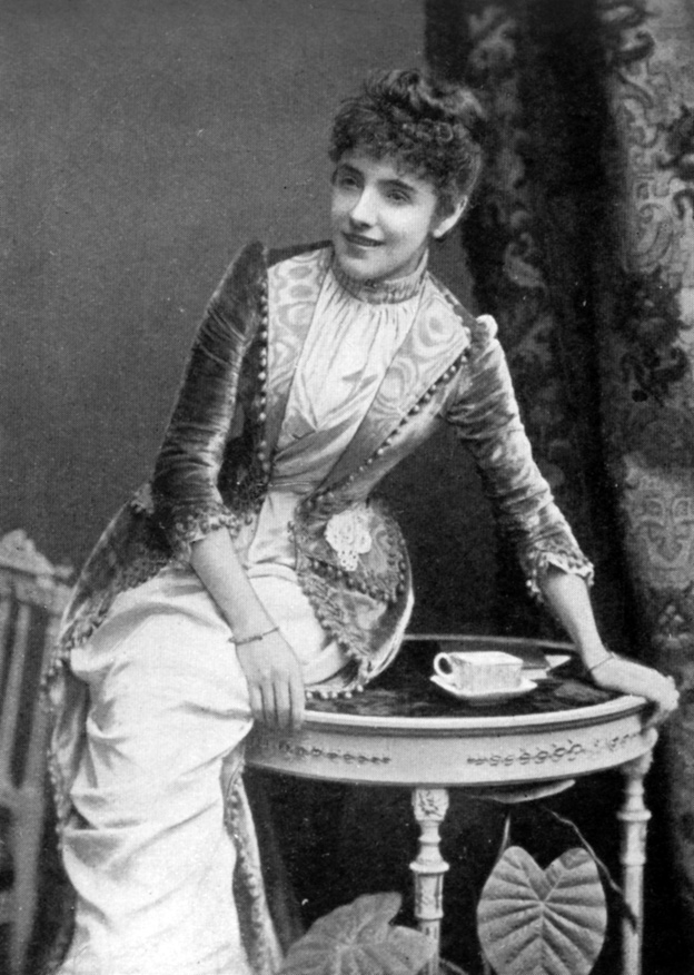 Photograph shows Jessie Bond (10 January 1853 – 17 June 1942), was an English singer and actress